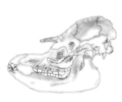 Skull of a Brazilian Tapir